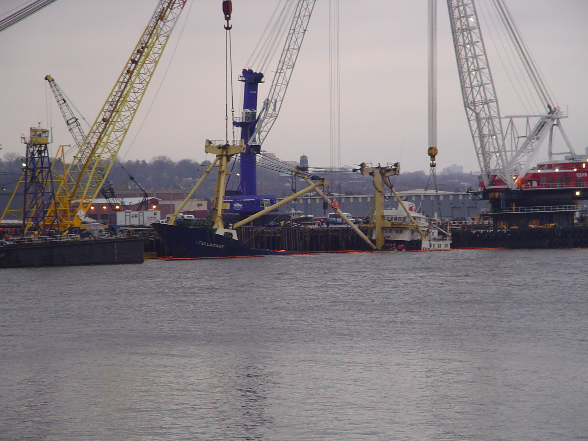 Russian ship Stellamare capsized at port of Albany, N.Y. 3 crew members died